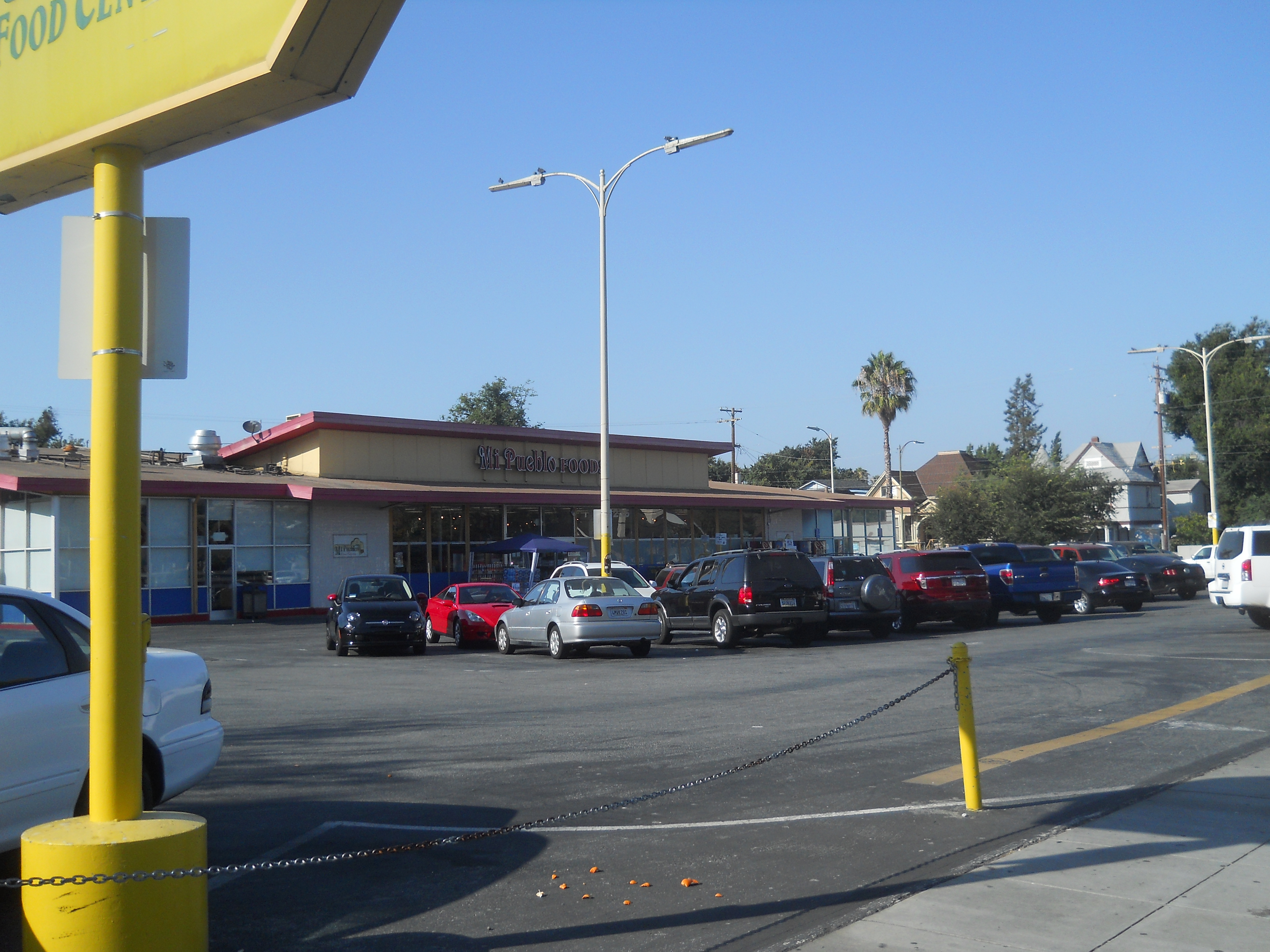 Mi Pueblo supermarket on Julian St between 5th and 6th, San Jose, California